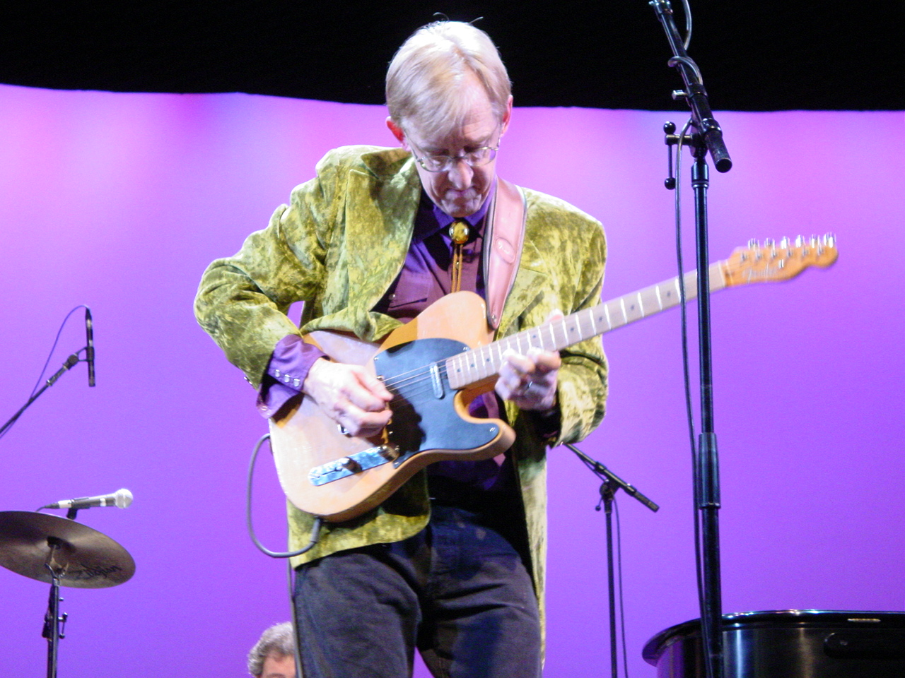 David Thrower, 2004